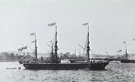 AWM caption : "SYDNEY, NSW. 1887. STARBOARD SIDE VIEW OF THE SCREW CORVETTE HMS DIAMOND IN FARM COVE. SHE IS CELEBRATING THE JUBILEE OF QUEEN VICTORIA. THE SHIPS IN THE BACKGROUND ARE, FROM LEFT TO RIGHT, THE SCREW CORVETTE HMS RAPID, THE SAILING SCHOONER HMS UNDINE, THE VICTORIAN GOVERNMENT STEAMER HMVS LADY LOCH AND THE SCREW CORVETTE HMS OPAL."